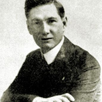 Picture of Ernest Ball during tour for billboards. Taken by Grandfather